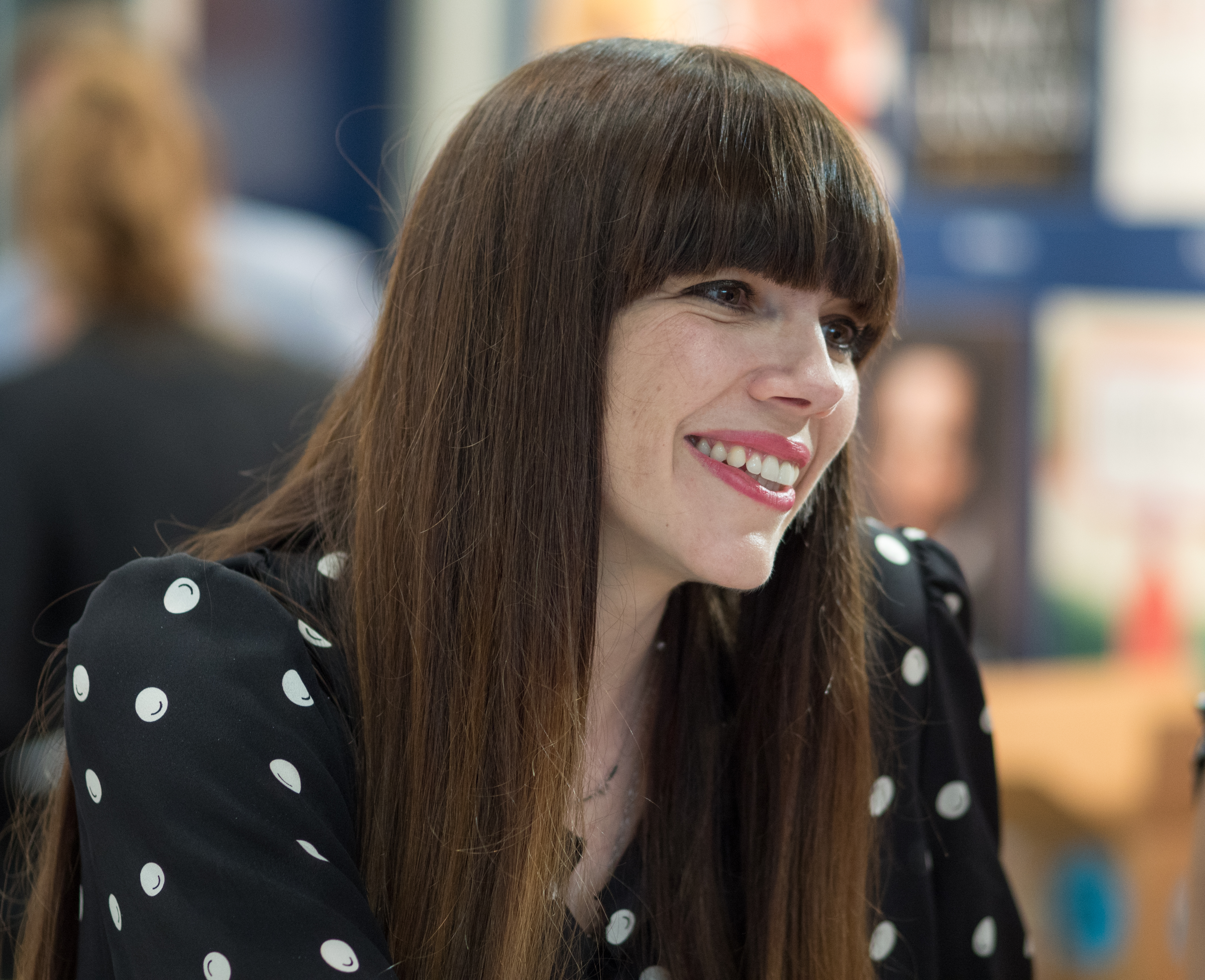 Kate Morton BookExpo America 2018 at the Javits Convention Center in New York City.